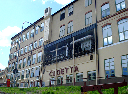 Cloetta, Ljungsbro, Sweden